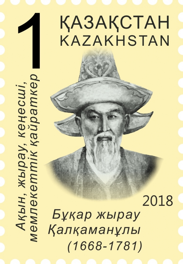 1092. Memorable and anniversary dates. 350th anniversary of Bukhar-zhirau Kalkaman Uli.